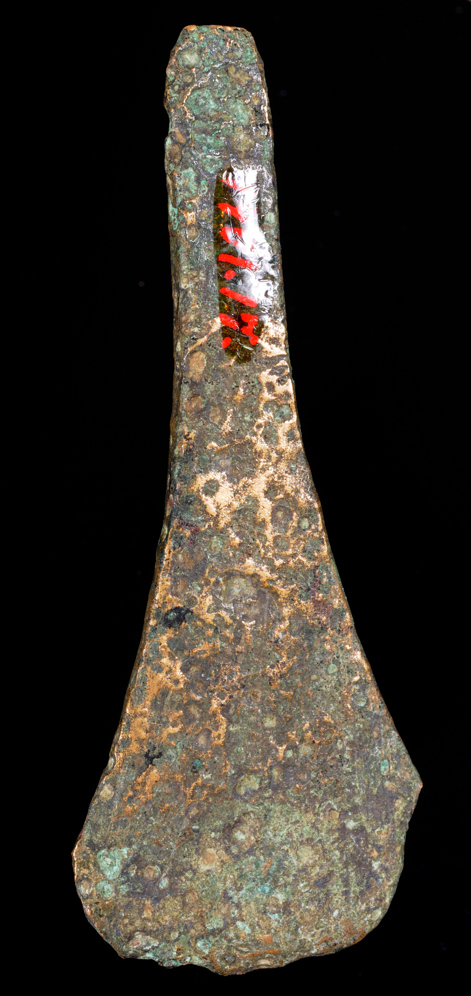 Bronze Age flat axe form the Pestrup grave field